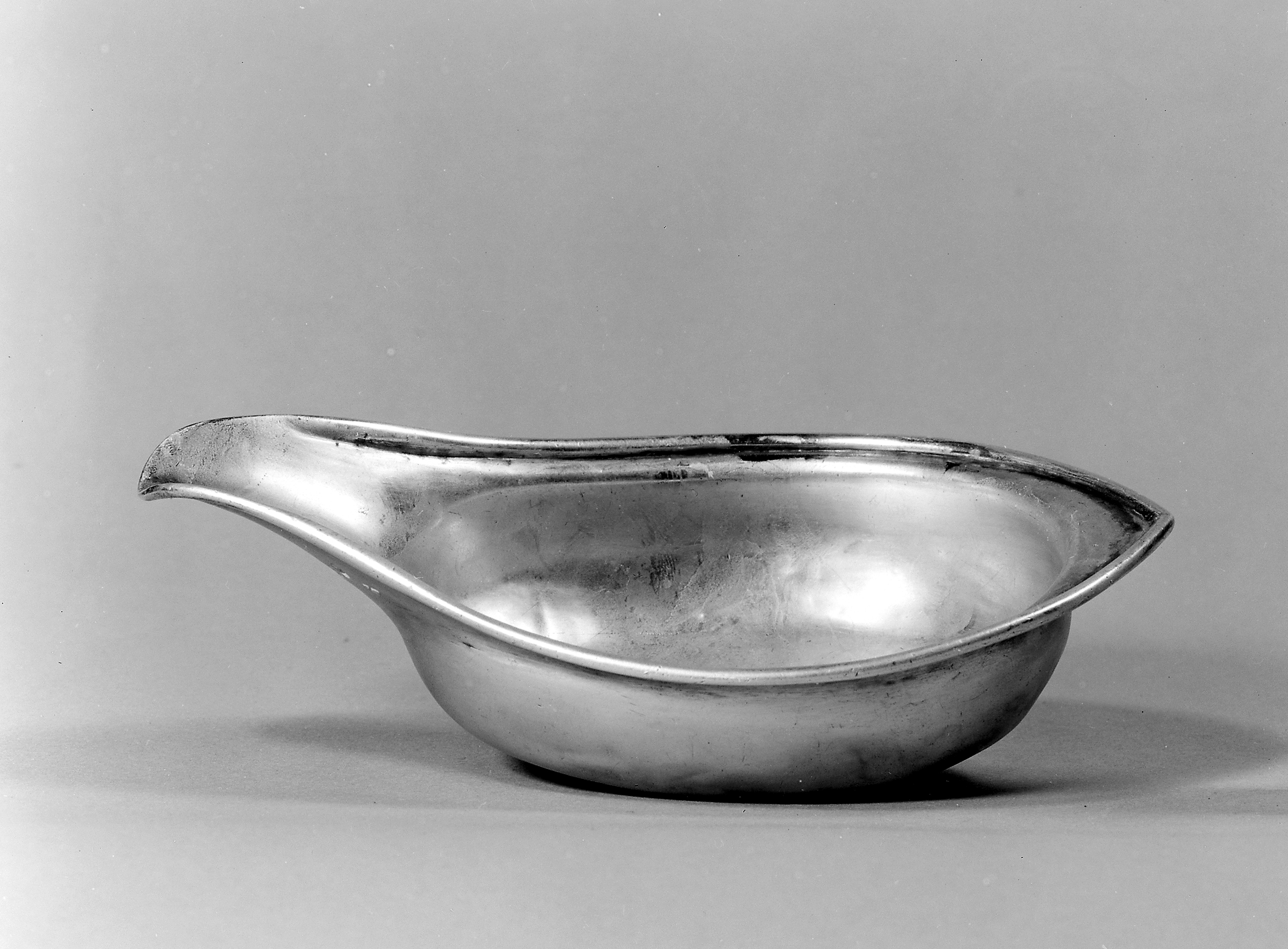 Pap-boat. Wellcome Images Keywords: Edward Barnard; Rebecca Emes